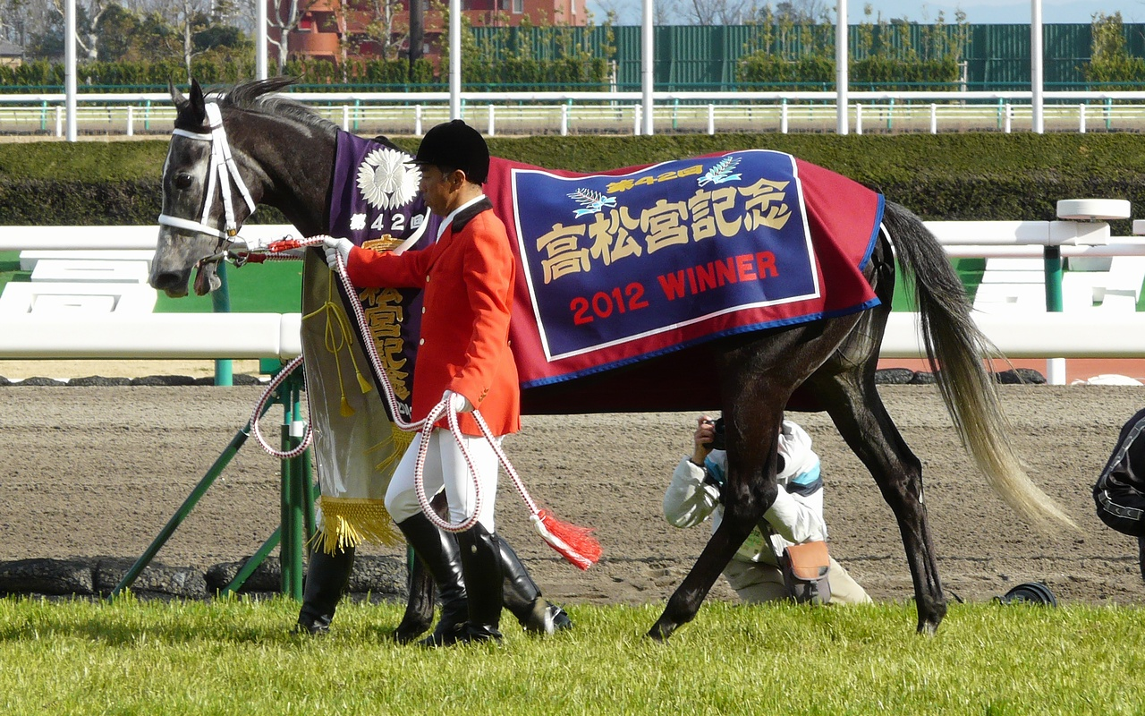 Curren-Chan20120325(2)